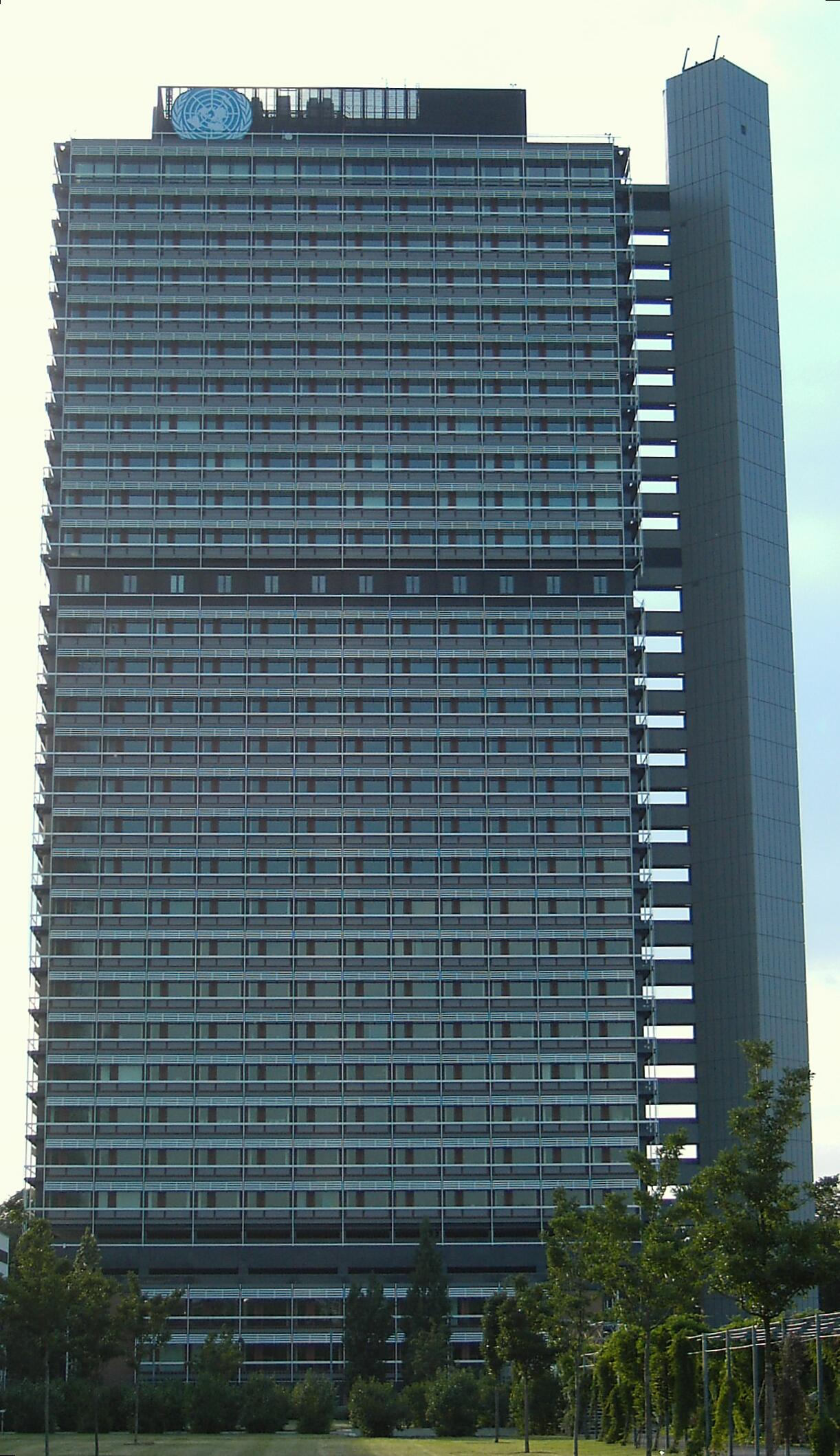 The highrise “Langer Eugen” (“Tall Eugen”) in Bonn.